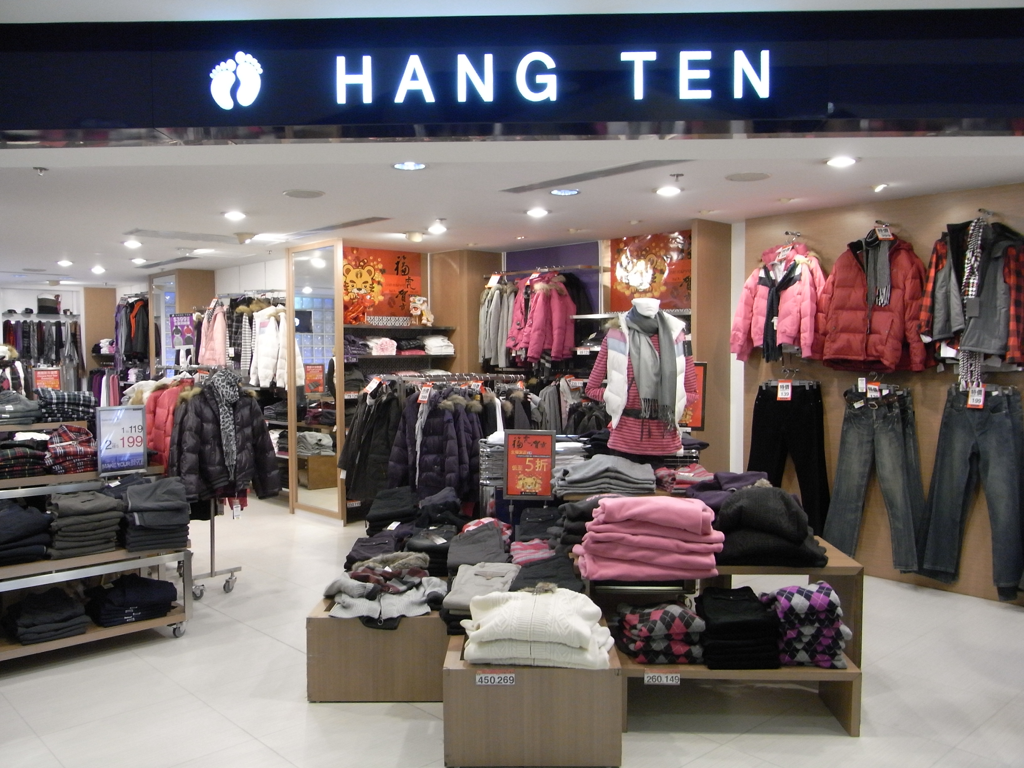 香港九龍城廣場